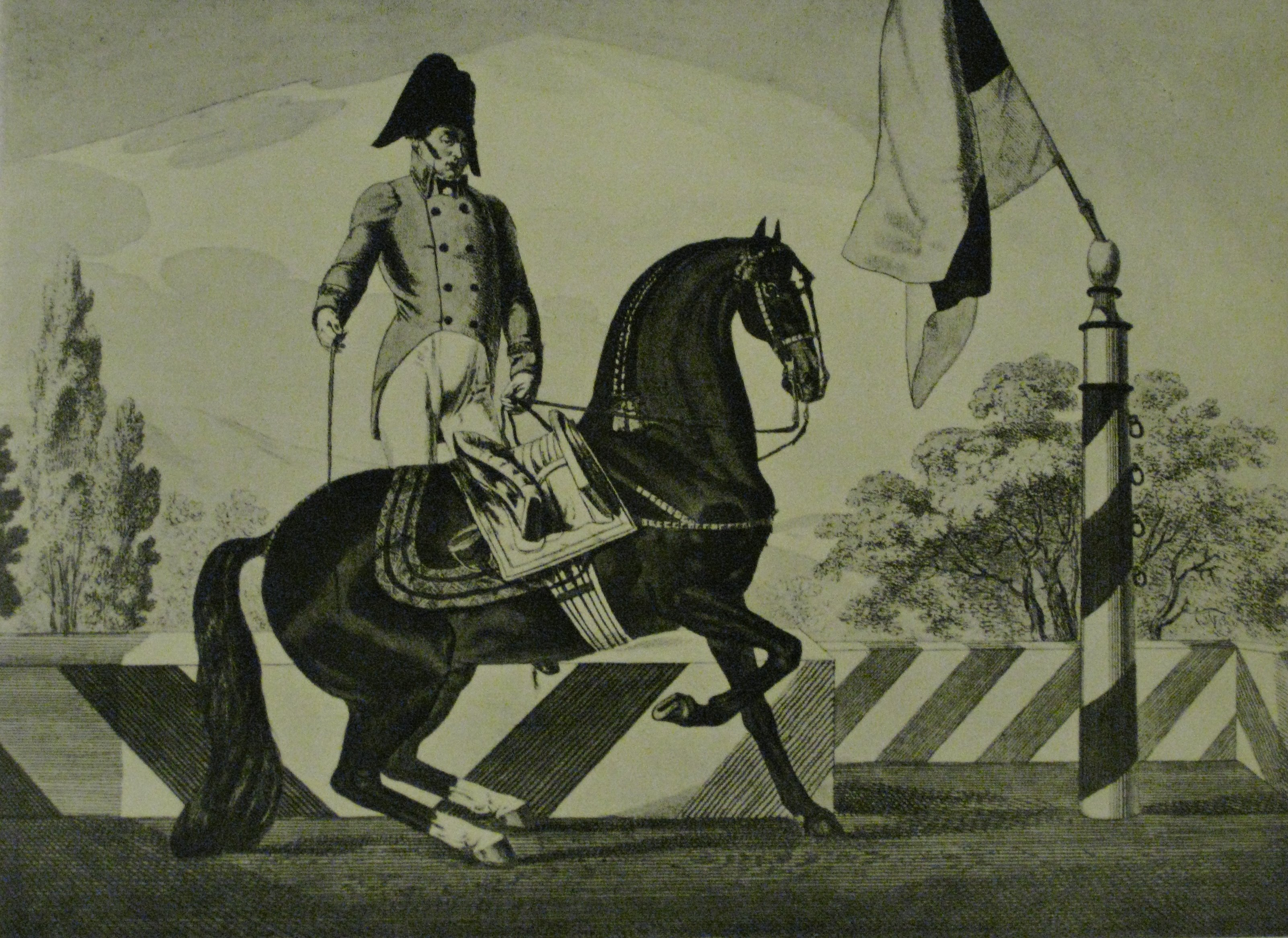 Maximillian Ritter von Weyrother